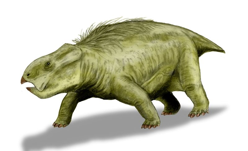 Dolichuranus primaevus, a therapsid from the Middle Triassic of Namibia, pencil drawing, digital coloring